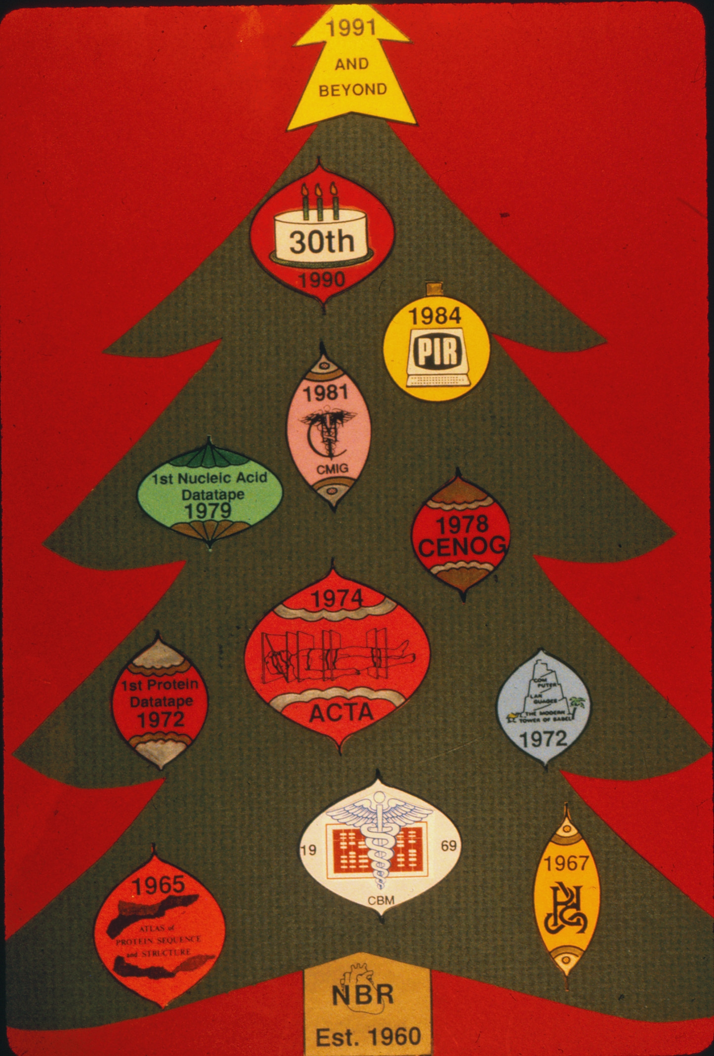 NBRF Projects and Publications Christmas Tree